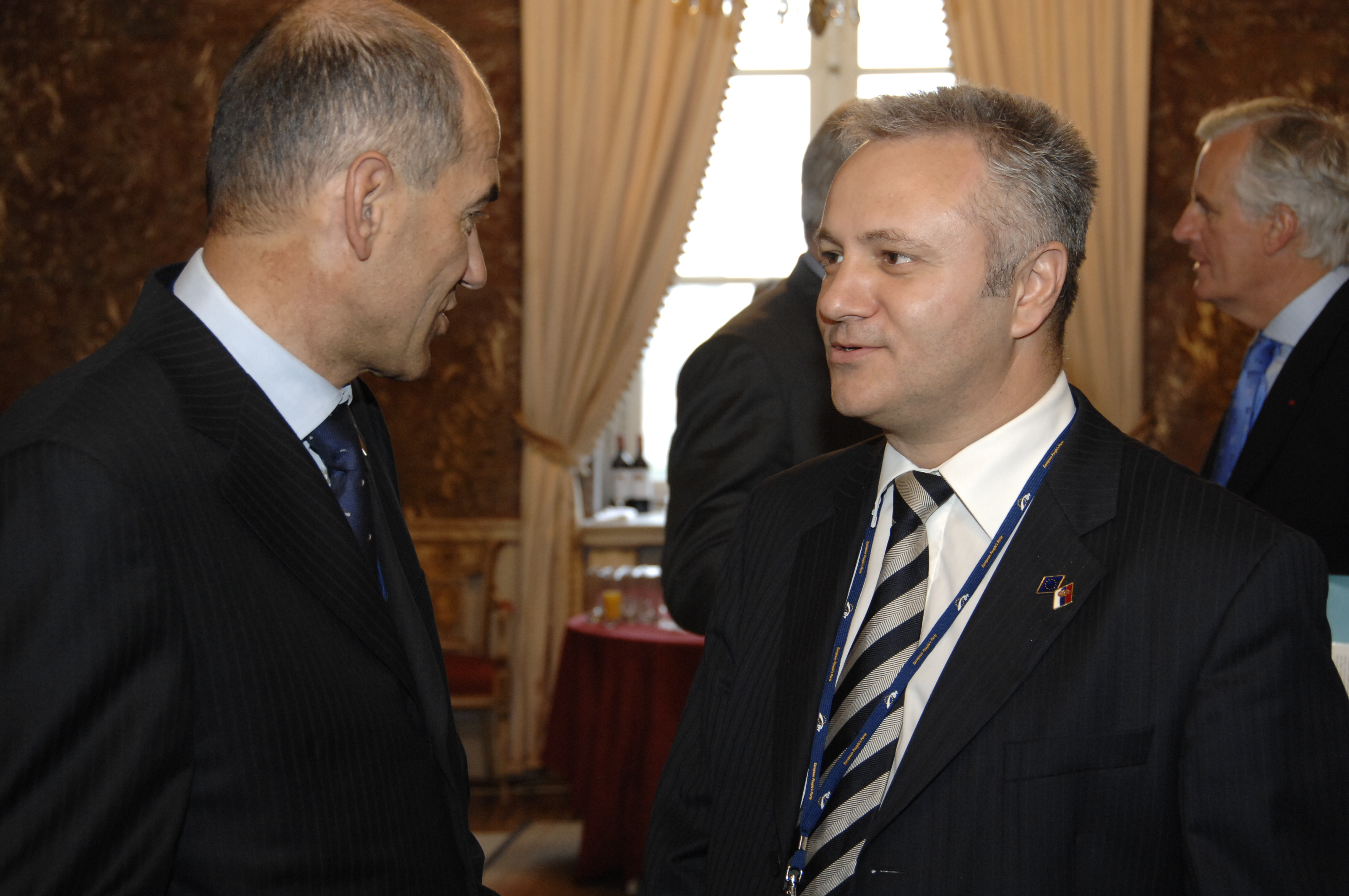 EPP Summit 15 October 2008